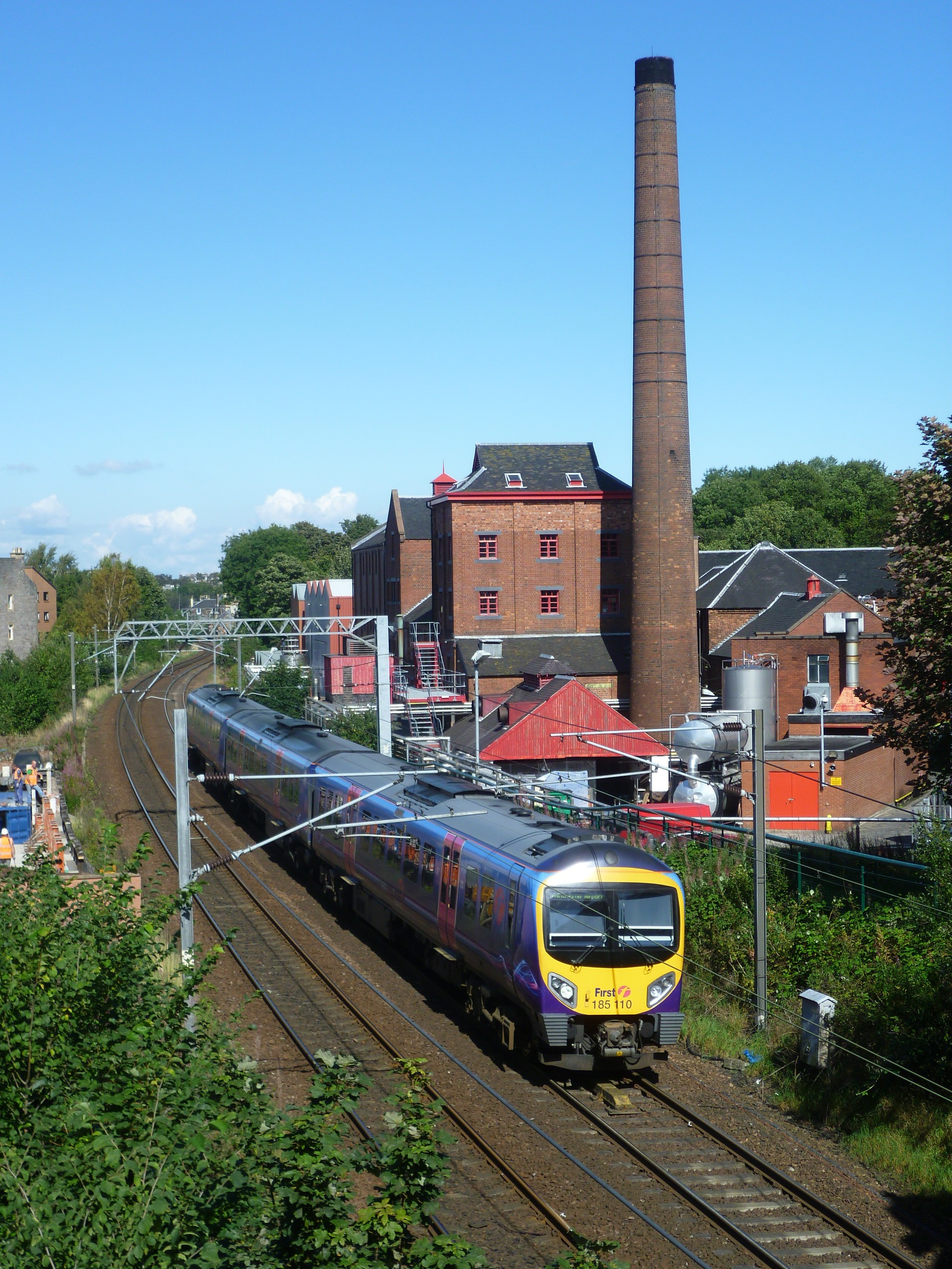 The Class 185 'Desiro' in First Train livery is on the Caledonian Main Line between Edinburgh Waverley and Carlisle.